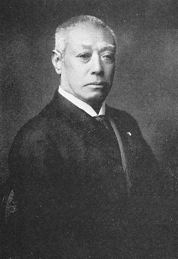 Morimasa Takei